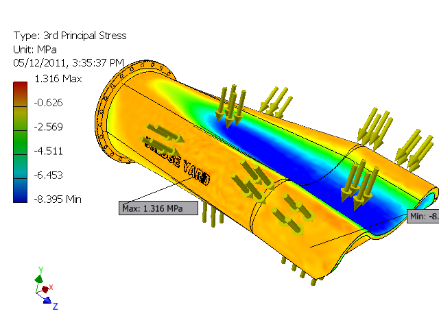 Dredge Suction Mouth Constraint